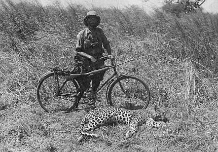 Kazimierz Nowak was rather a peaceful man but in savannah in Africa without a gun you have rather a very little chance to survive. The photo probably taken by Kazimierz Nowak (1897–1937, the author is on the photo; taken probably by a self-timer) during his trip through Africa - a Polish traveller, correspondent and photographer. Probably the first man in the world who crossed Africa alone from the North to the South and from the South to the North (from 1931 to 1936; on foot, by bicycle and canoe).